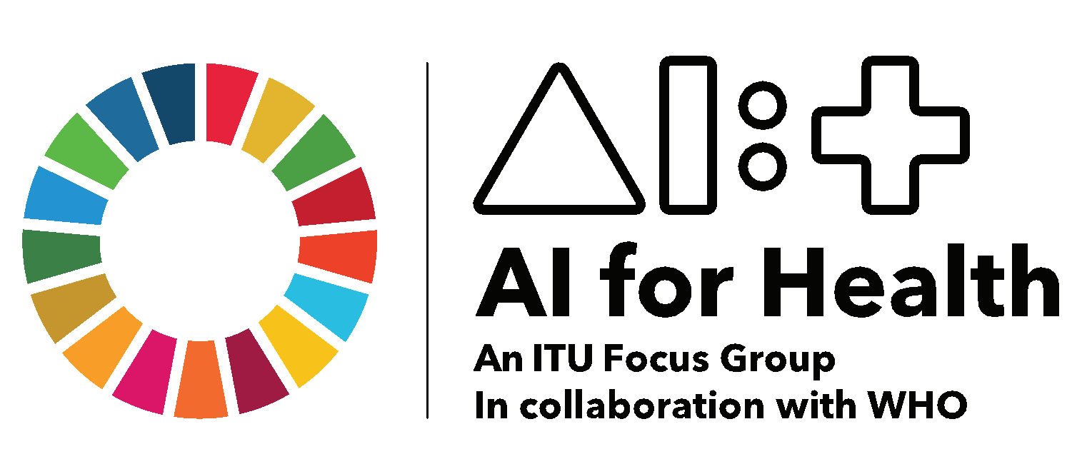 The logo of the ITU-WHO Focus Group on Artificial Intelligence for Health.